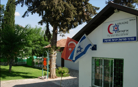 Arkadaş Association in Yehud, IsraelTürkçe: Arkadaş Derneği, Yehud, İsrail